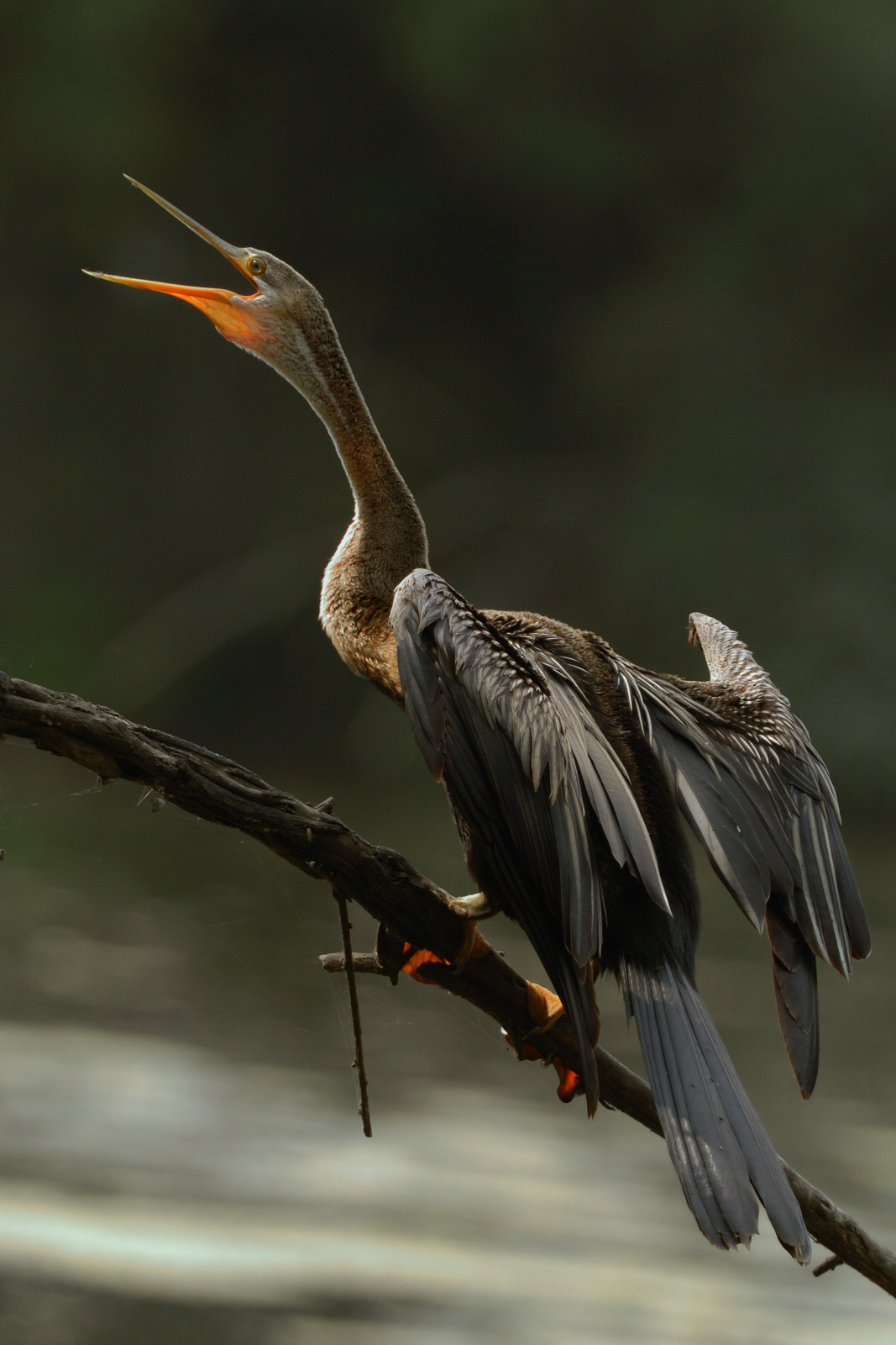 Darter